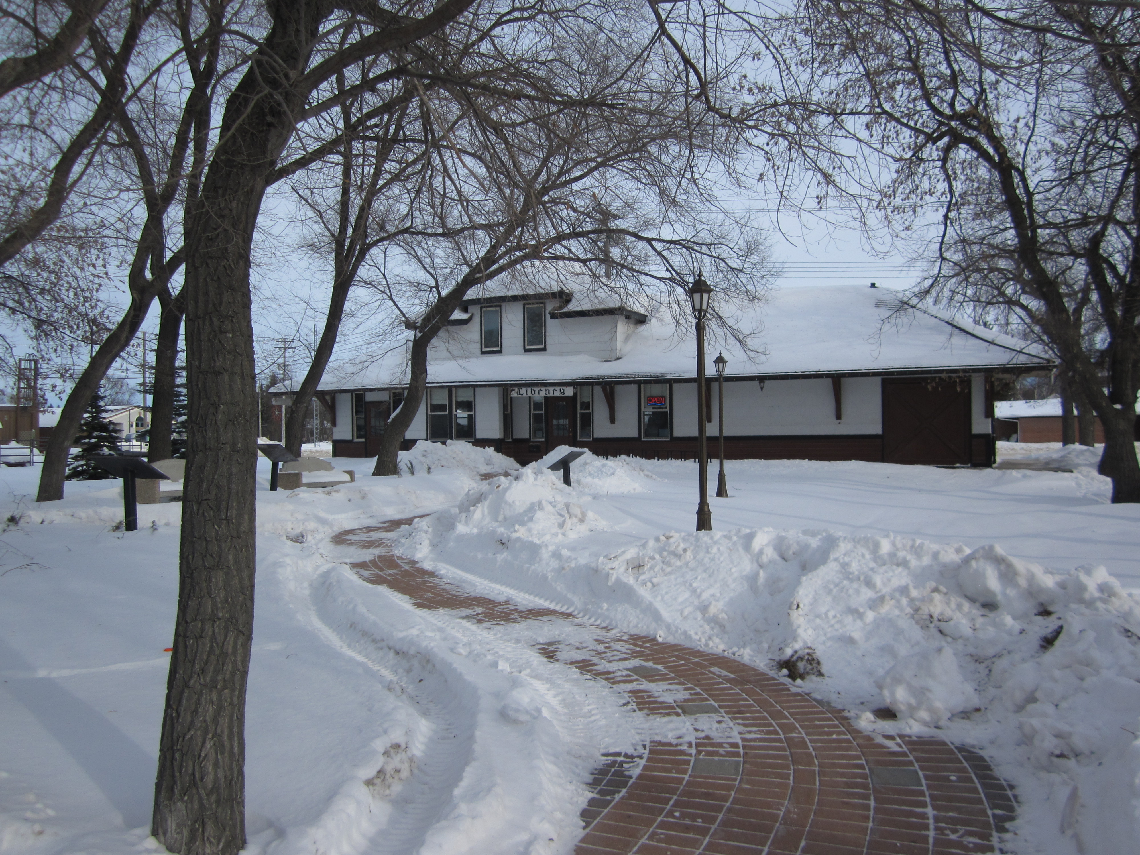 Arborg CPR Station (Evergreen Regional Library), Arborg, Manitoba